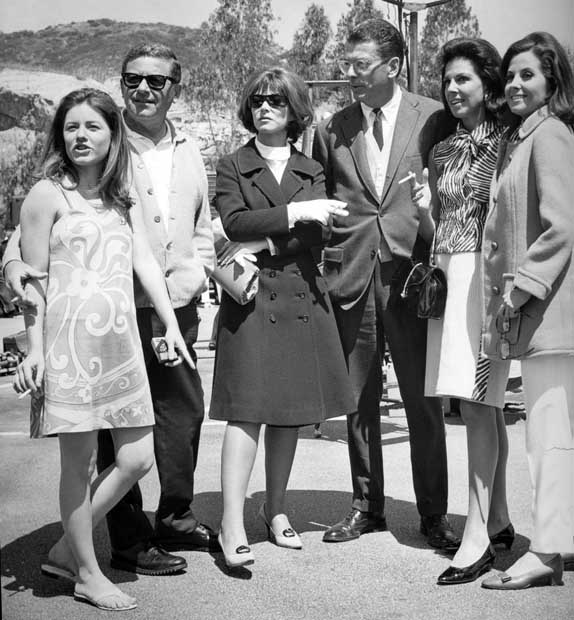 Left to right: Patty Duke, Mark Robson (director), Lee Grant, David Weisbart (producer), Jacqueline Susann (author-actress), and Barbara Parkins on the set of Valley of the Dolls (1967) - publicity still